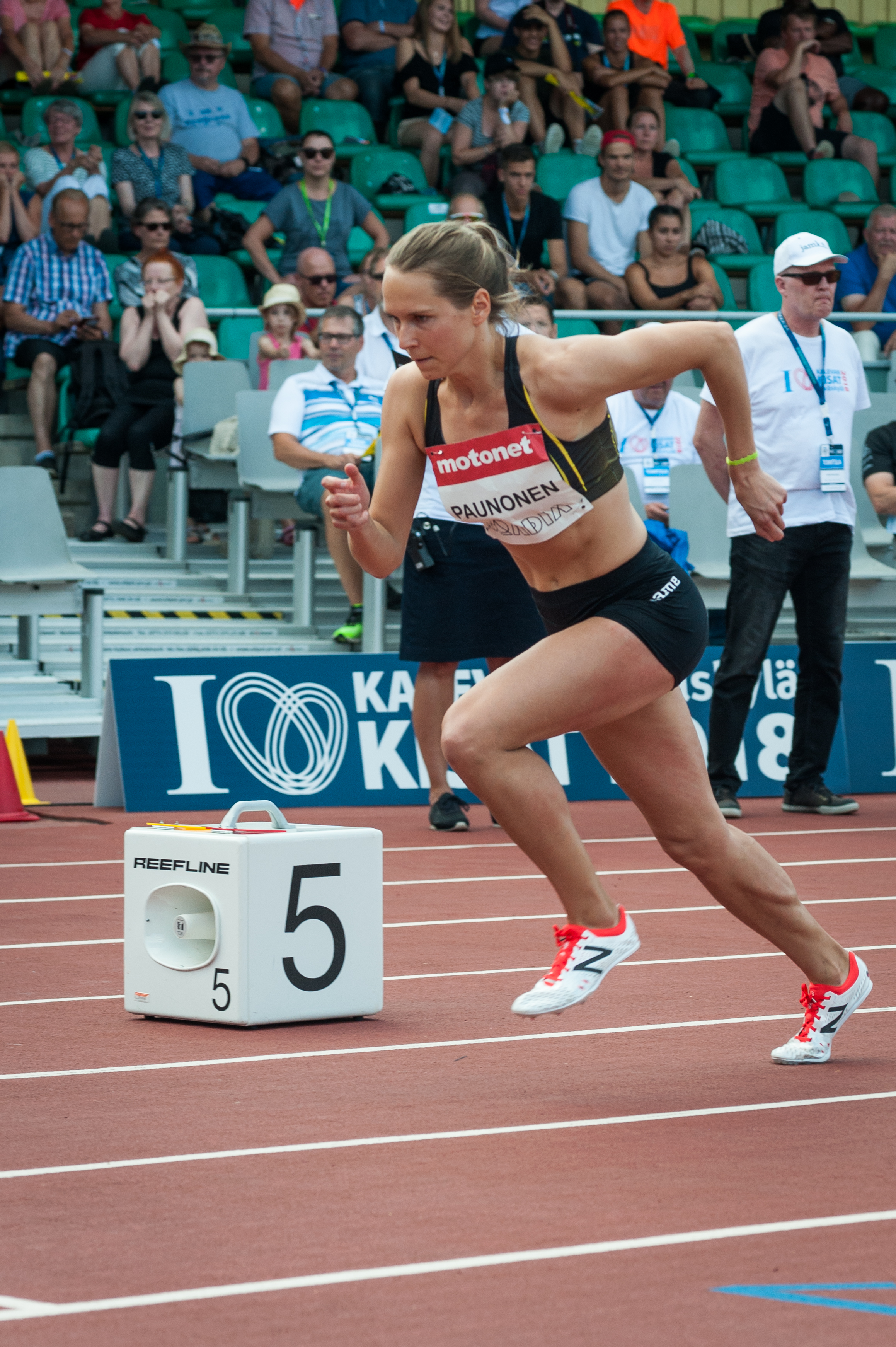 Women's 800 m competition at the 2018 Kalevan Kisat, the Finnish championships in athletics, in Jyväskylä, Finland.